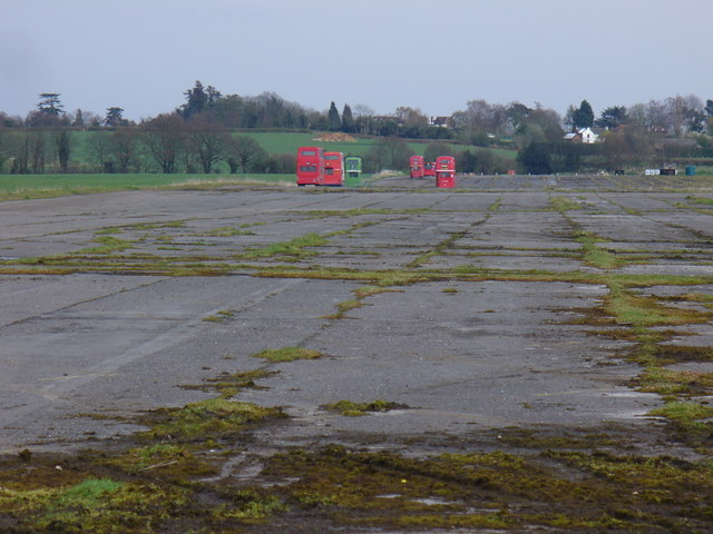 Wisley Airfield Former WW2 airfield which now attracts much speculation over building land prospects. The former runway here has buses on it, vintage London buses departing Cobham Bus Museum's annual gathering.